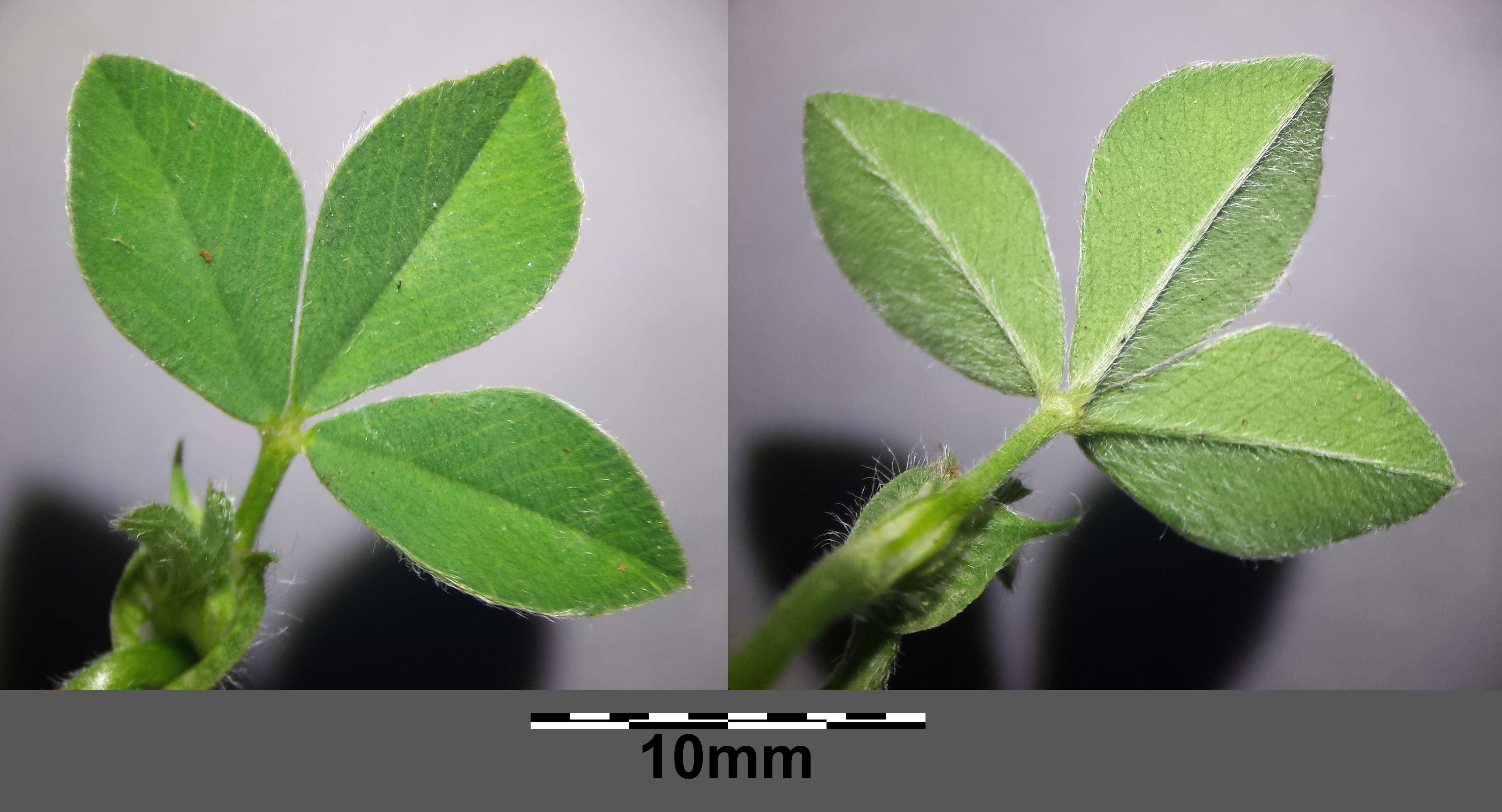 Leaf (top and bottom side) Taxonym: Trifolium striatum ss Fischer et al. EfÖLS 2008 ISBN 978-3-85474-187-9 Location: Korneuburg rail station, district Korneuburg, Lower Austria - ca. 170 m a.s.l. Habitat: ruderal lawn